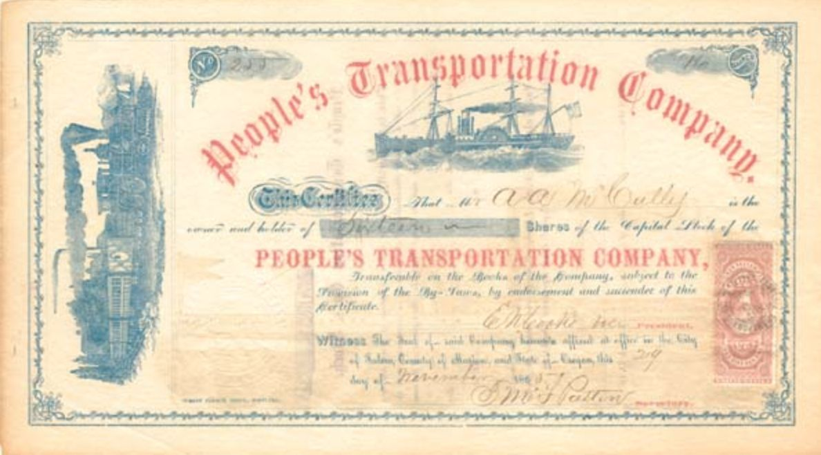 Stock certificate issued by People's Transportation Company, E.N. Cooke, president, issued to Asa A. McCully, for 16 shares